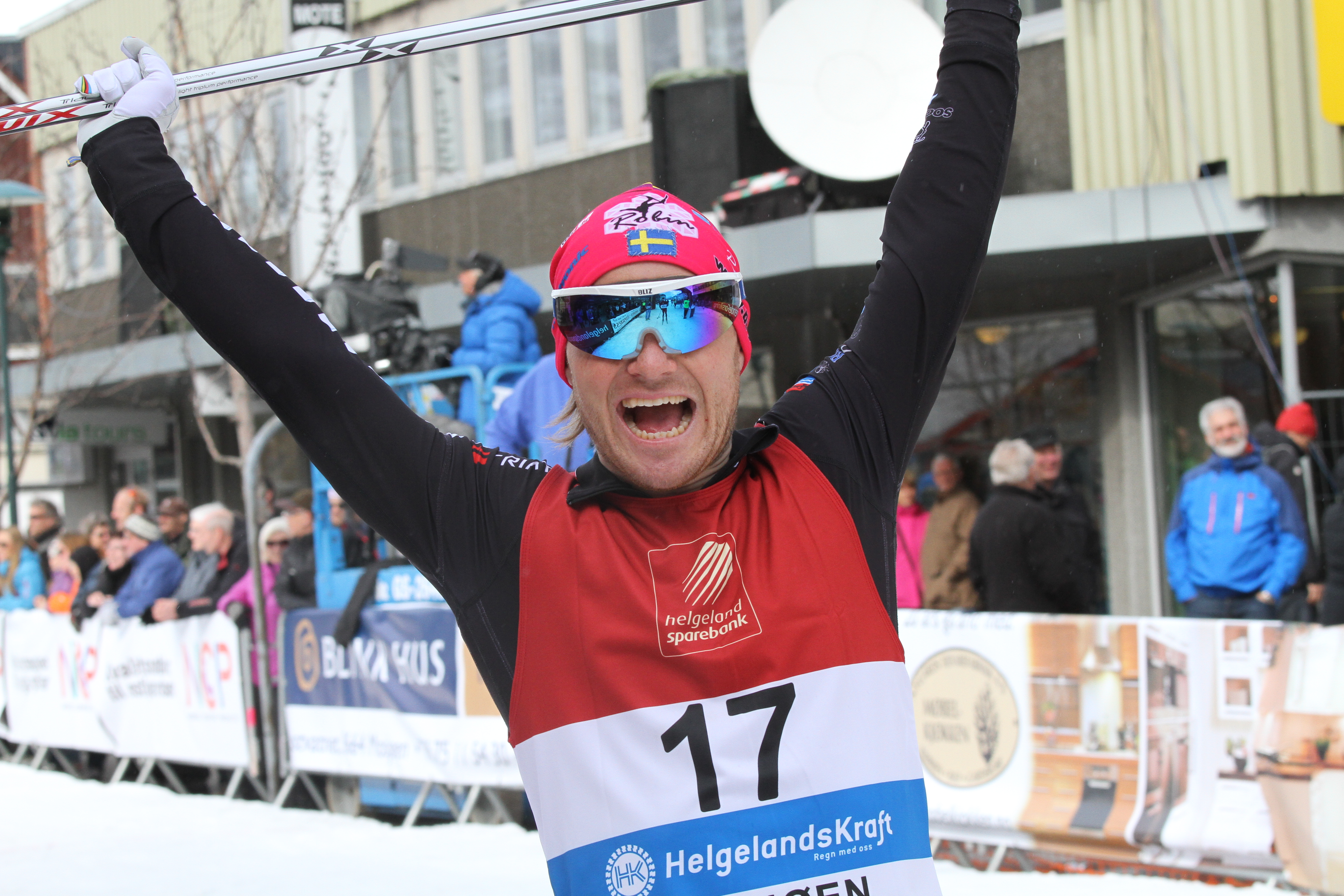 Swedish cross-country skier Robin Bryntesson at the exhibition sprint race "Bysprinten" in Mosjøen, Norway.